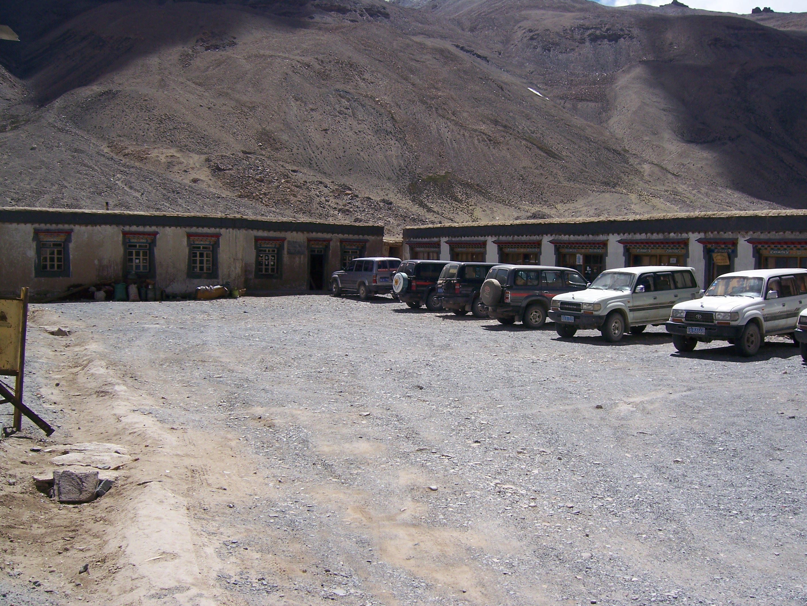 Rongphu Monastery Hotel. Taken by Ethan Lutske, uploaded by him.